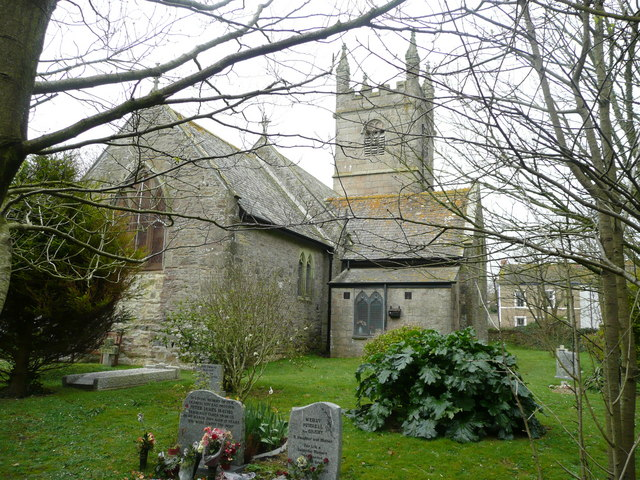 St. Gwithian's from the west A well-kept churchyard.